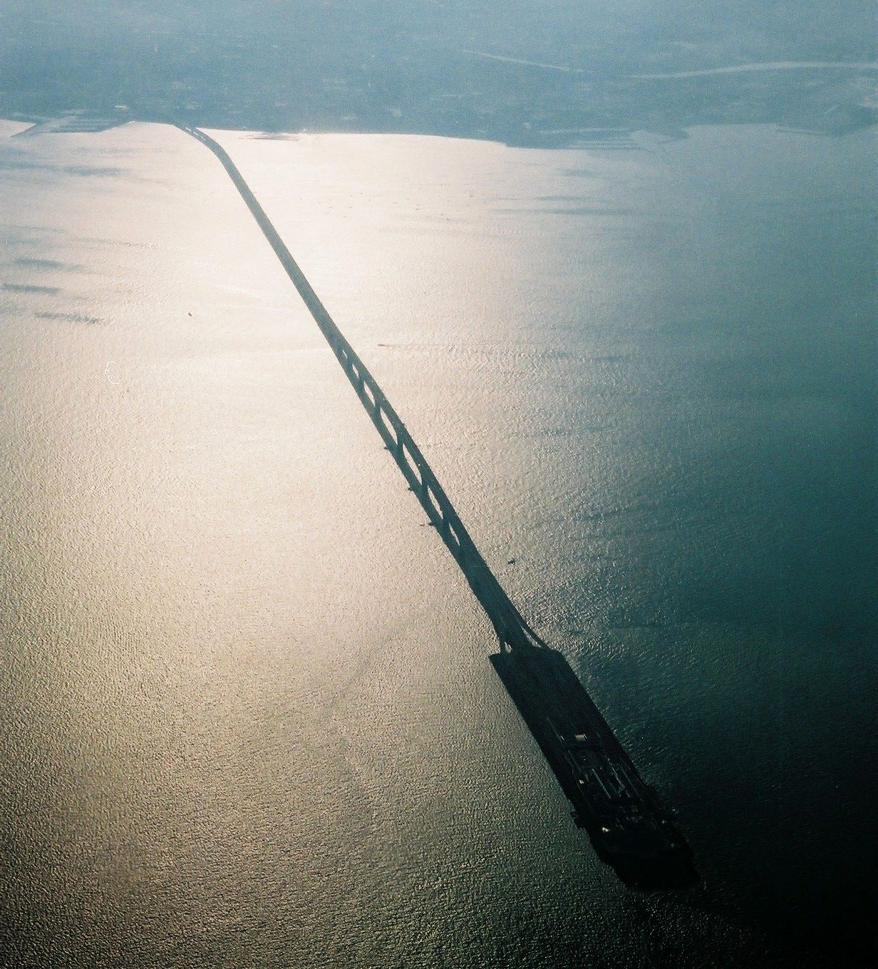 Tokyo Bay Aqua-Line with Umihotaru PA as seen from the NW. (2006/11/22 In Flight, NH841, JAPAN)